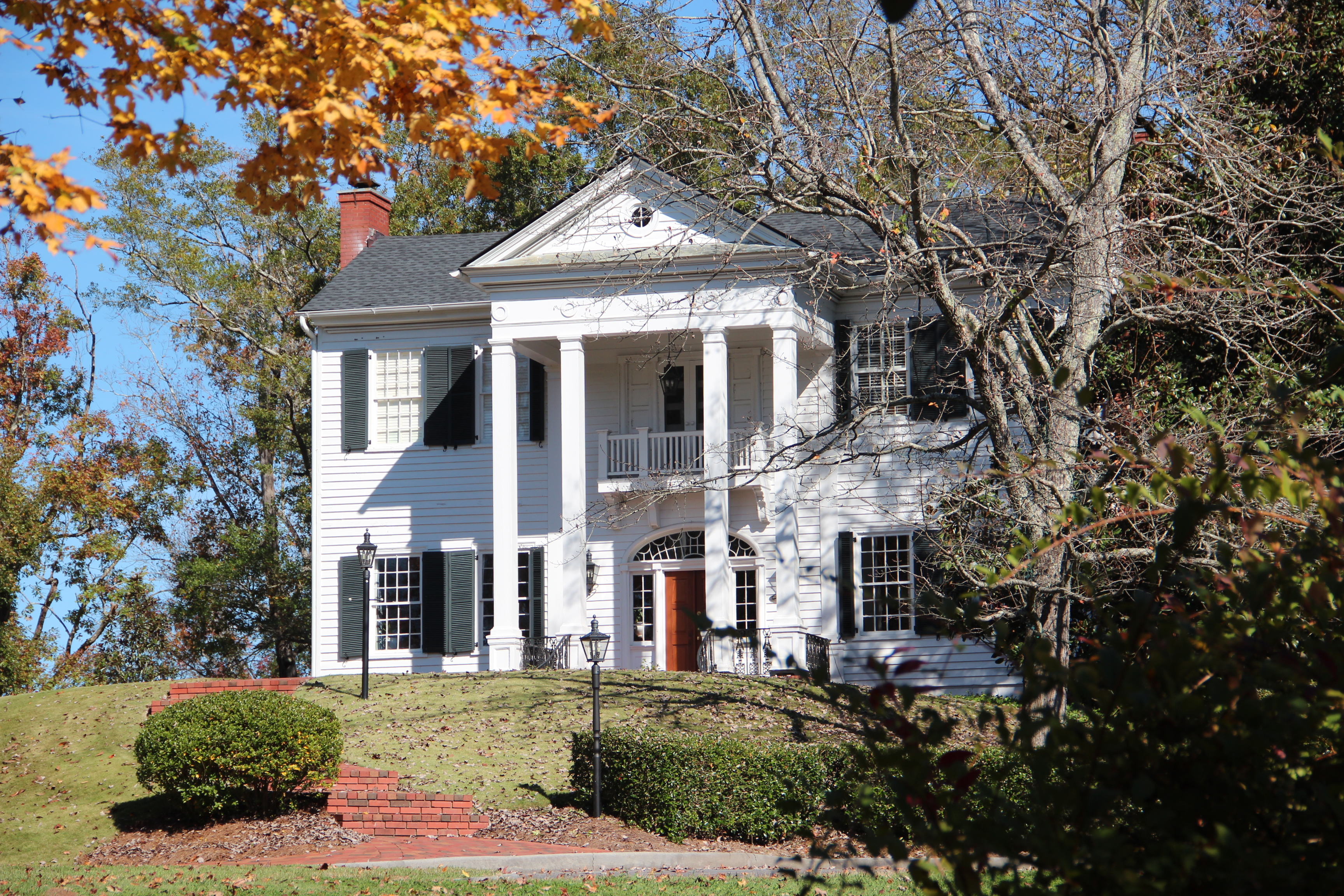 Alhambra-Home on the Hill, Rome, GA